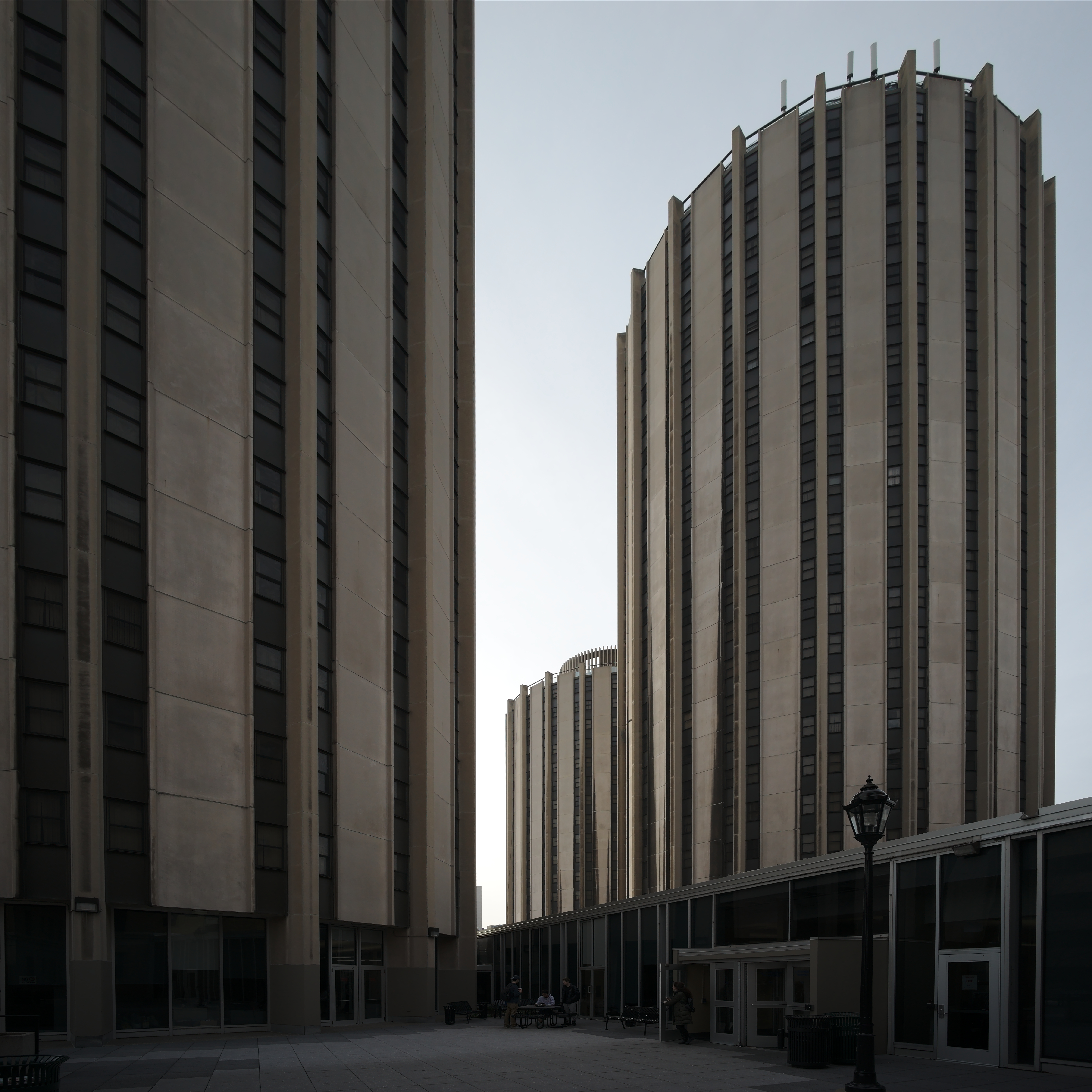 The Litchfield Towers are student dormitories in three cylindrical towers at the University of Pittsburgh.